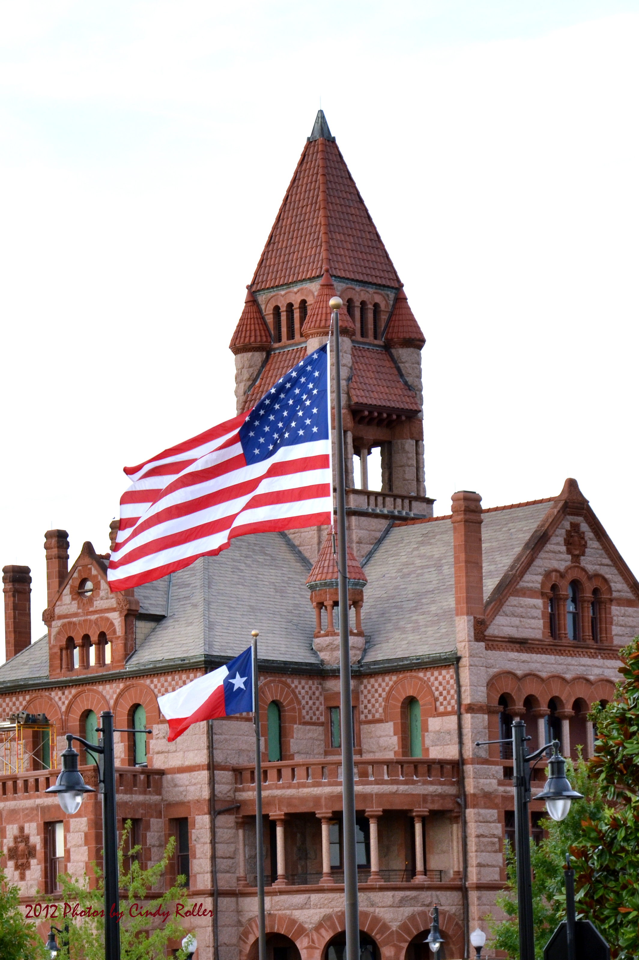 SS Amer Flag - Hopkins County Courthouse in Downtown.